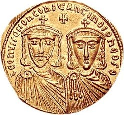 Solidus of Leo IV the Khazar & Constantine VI.